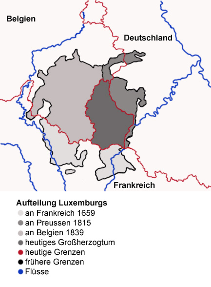 Map showing the partition of Luxembourg through the centuries, with German explanations.